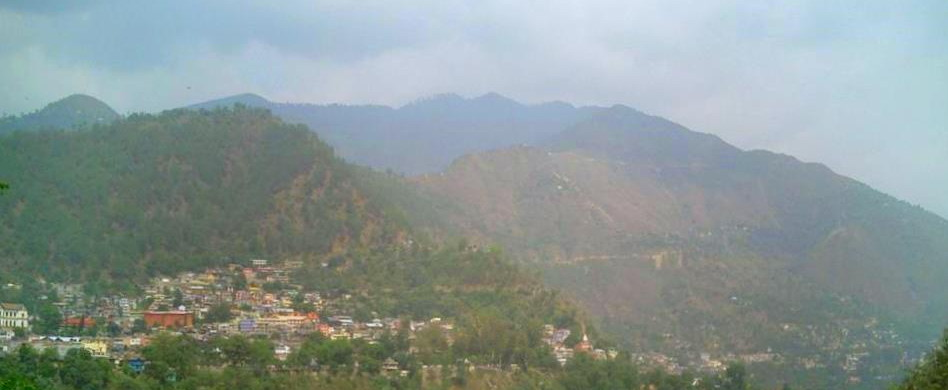 Chamba from across the river, Himachal Pradesh.